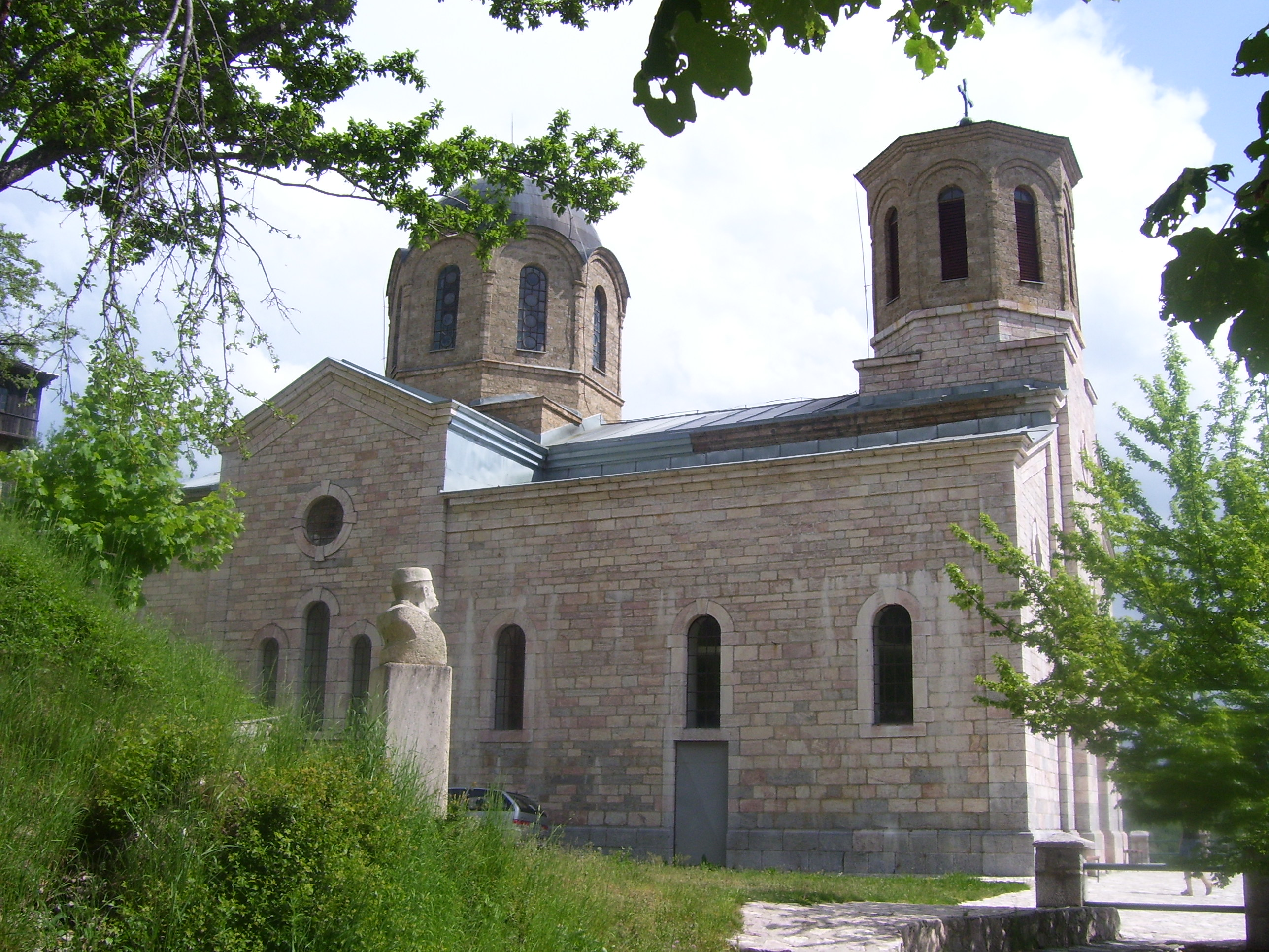 St.Peter & Paul Church, Galichnik, Republic of Macedonia